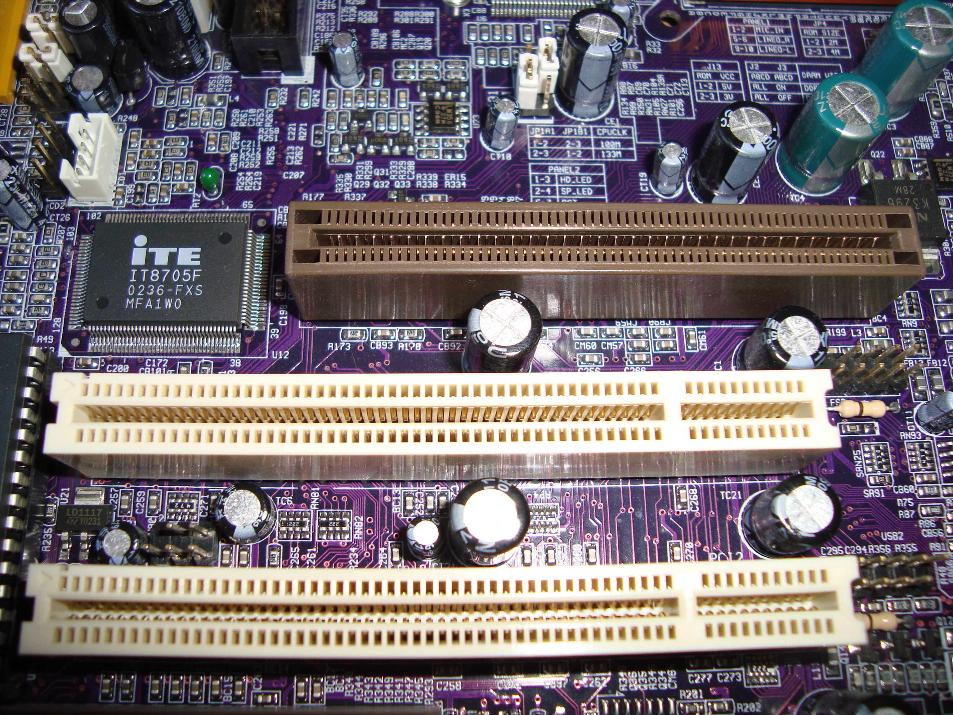 AGP (top, brown) and PCI (bottom, white) slots at ECS P4VMM2 motherboard.